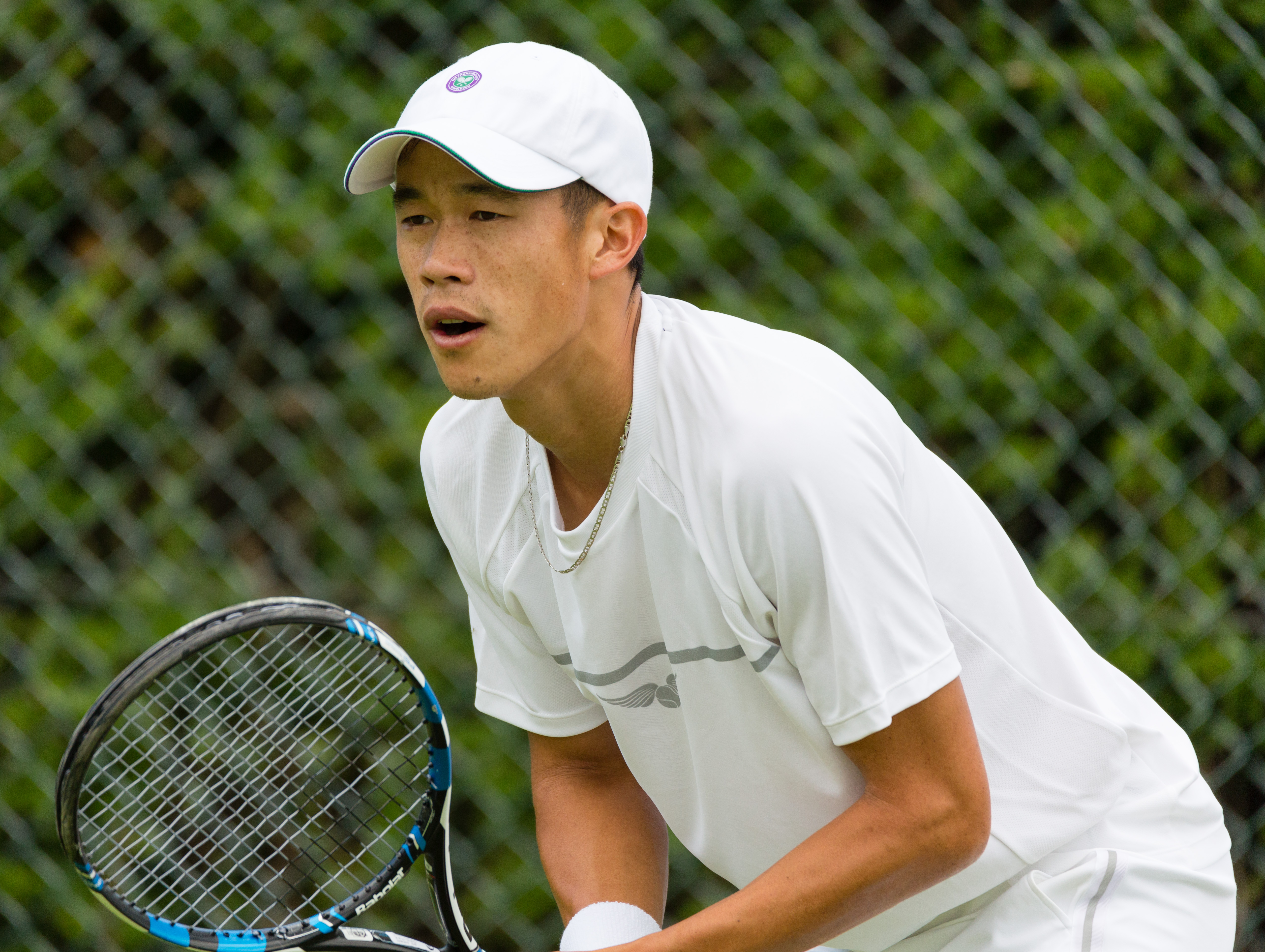 Jason Jung competing in the first round of the 2015 Wimbledon Qualifying Tournament at the Bank of England Sports Grounds in Roehampton, England. The winners of three rounds of competition qualify for the main draw of Wimbledon the following week.